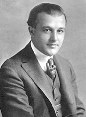 Photograph of William Garwood circa 1915 date QS:P,+1915-00-00T00:00:00Z/9,P1480,Q5727902. Public domain image needed to illustrate critically encyclopedia article. Published in USA before 1923. (trying as jpg)